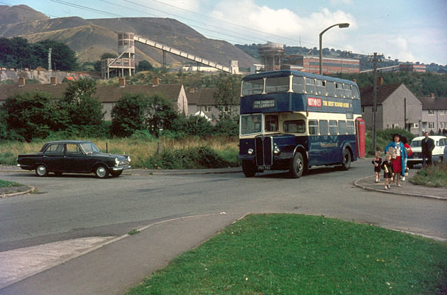 Bedwas Colliery with local bus, near to Bedwas, Caerphilly/Caerffili, Great Britain. The bus belonged to Bedwas and Machen UDC. This was one of the smallest British municipal operations, with no more than 6 or 7 buses owned at any one time. This view is at Llanfabon, on the service between Caerphilly and Trethomas to which they had exclusive rights. They also had a share with other operators in the long route between Newport and Rhymney Bridge. The concern disappeared with the local government reorganisation of 1974 when it merged with Caerphilly and Gelligaer UDCs to form Rhymney Valley District Council. Llanfabon was essentially a council estate built in the post war period to provide accommodation for the miners at Bedwas Colliery, which can be seen in the background. This is one of a series of views featuring buses in the 60s, 70s, and 80s. Link